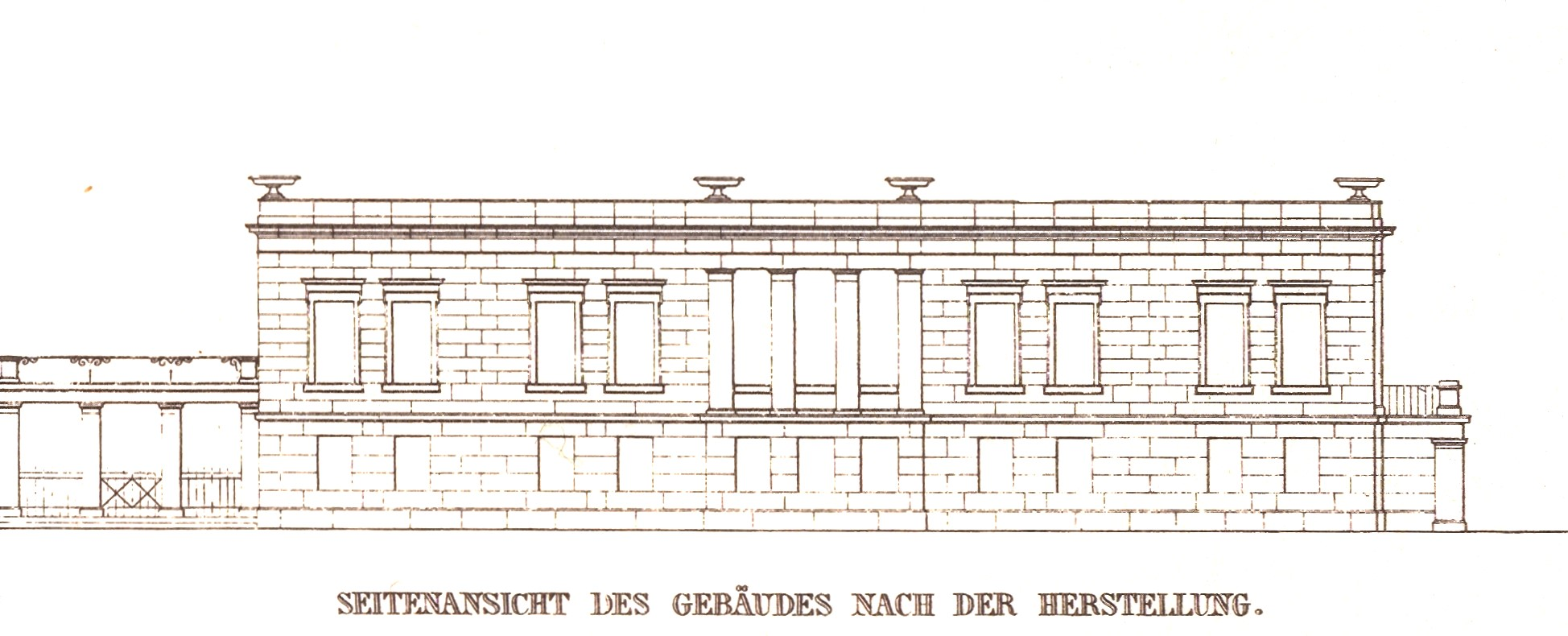 Berlin, Glienicke Palace, elevation lateral front